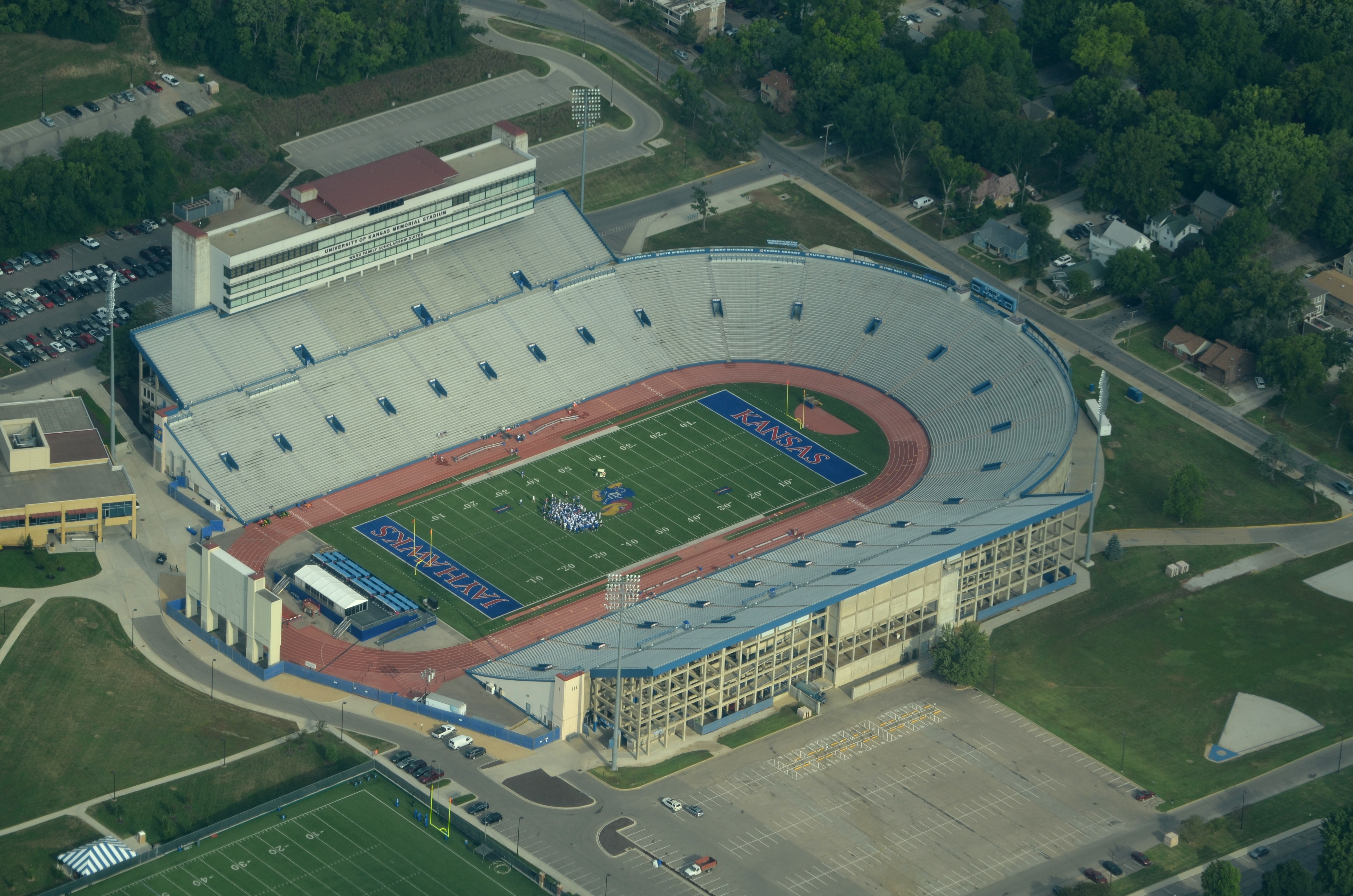 Aerial View of University of Kansas Stadium 08-31-2013